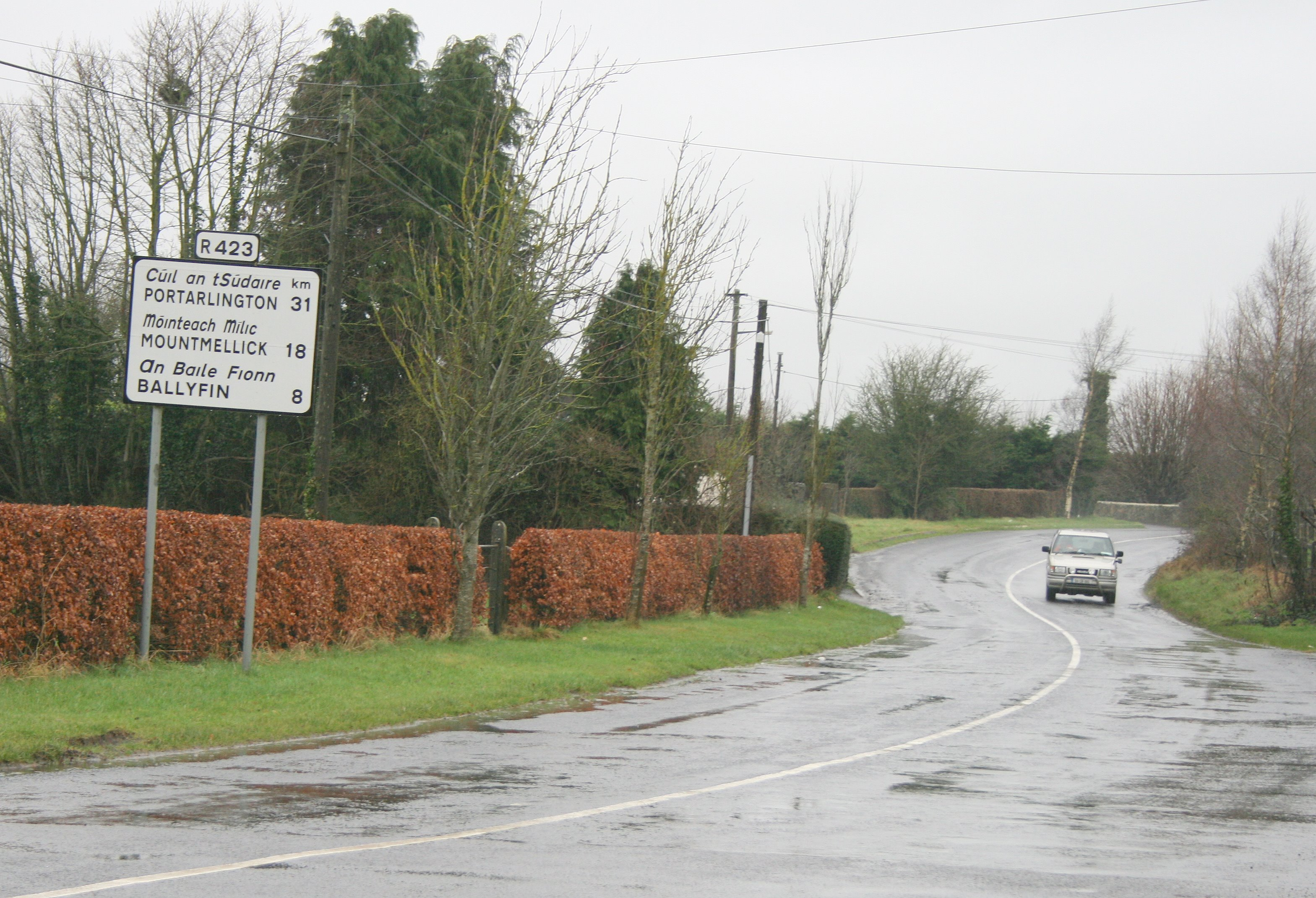 R423 leaving Mountrath, County Laois, Ireland